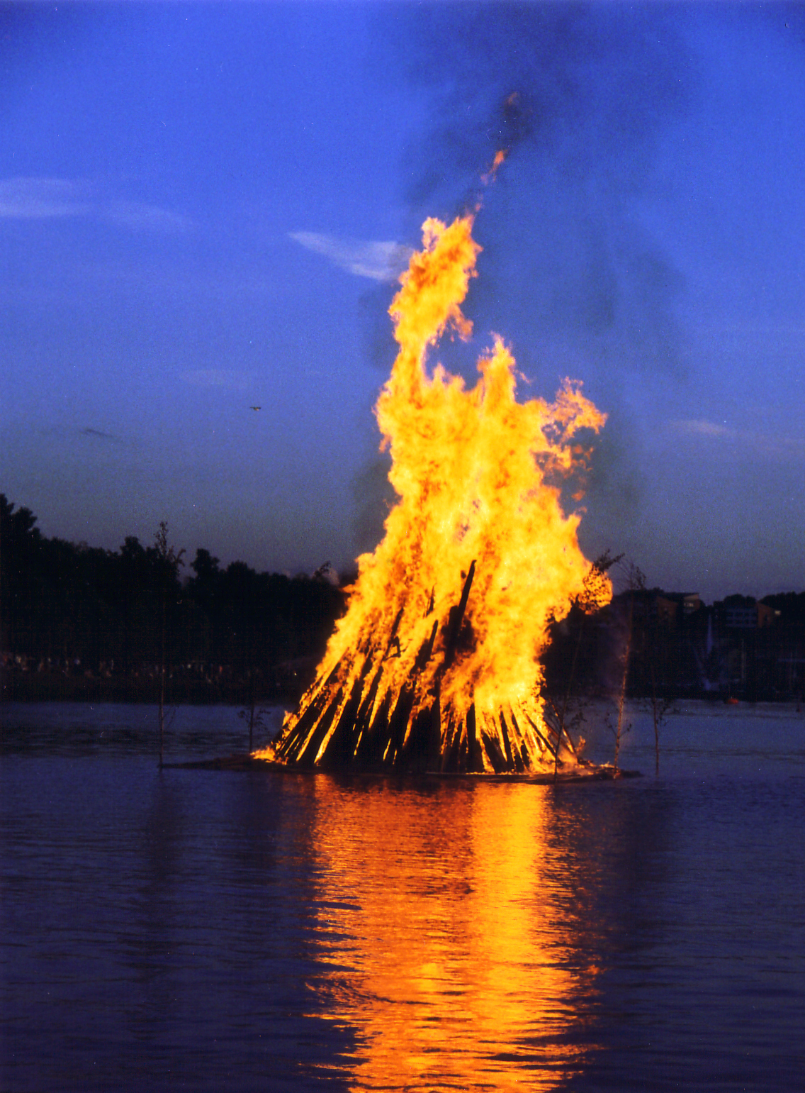 Traditional Midsummer Night Festival bonfire in Lappeenranta, Finland